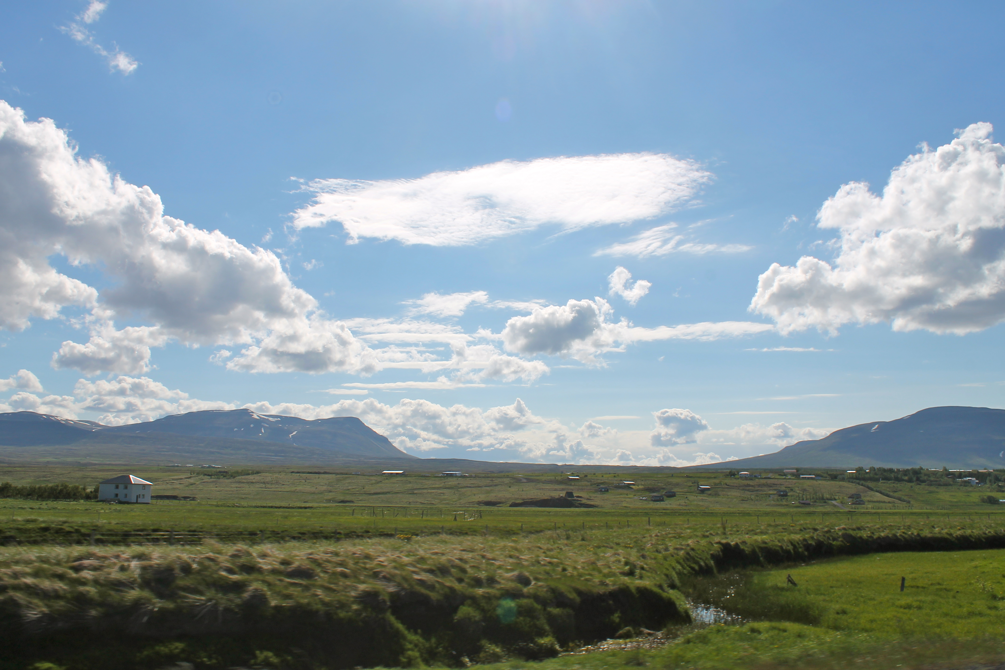 Mountain pass Vatnsskarð, between Skagafjörður and Húnavatnssýsla, Northern Iceland. Seen from Skagafjörður towards west.